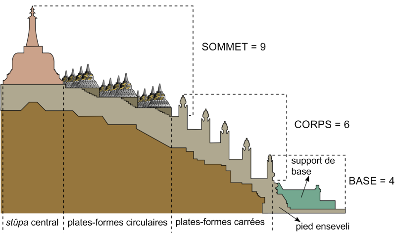 Half cross section of Borobudur. The number in head, body and foot are ratios = language of labels is French.